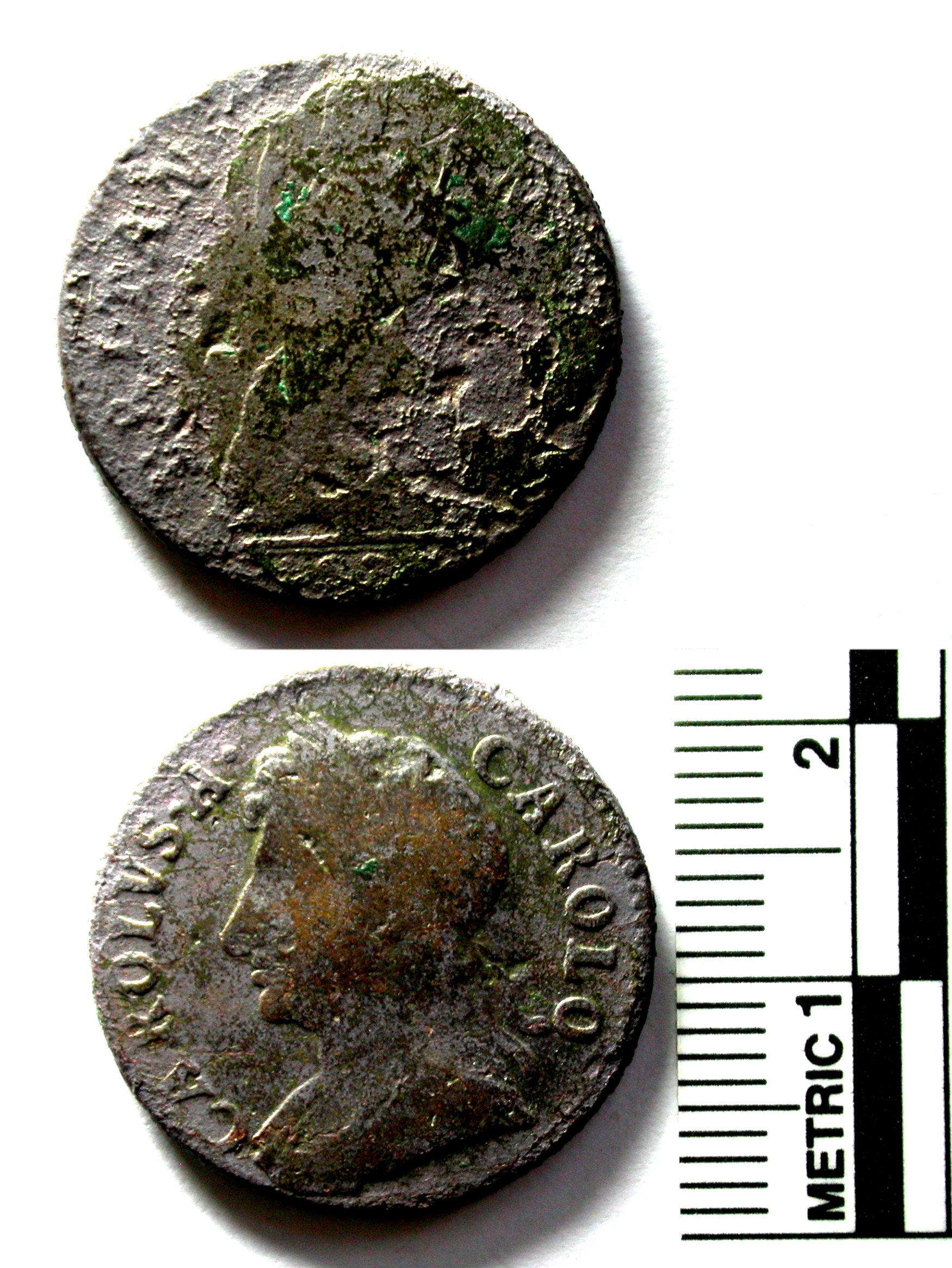 A farthing (Copper alloy) of Charles II of England. Mint: London. Type: Farthing (copper): Charles II (S 3394). Obverse description: Laureate bust left. Obverse inscription: CAROLO CAROLVS. Reverse description: Britannia seated 16-- in exerg. Reverse inscription: BRITANNIA